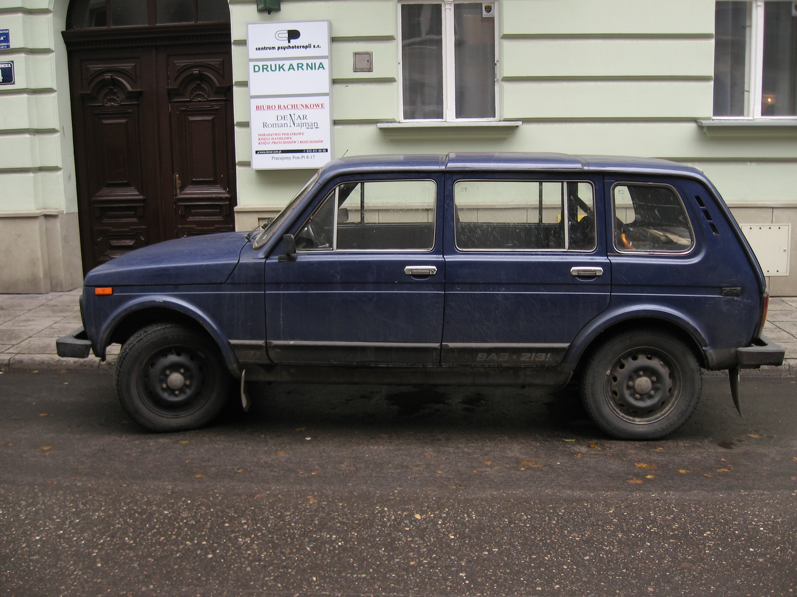 Lada Niva 21310 on Studencka street in Kraków.